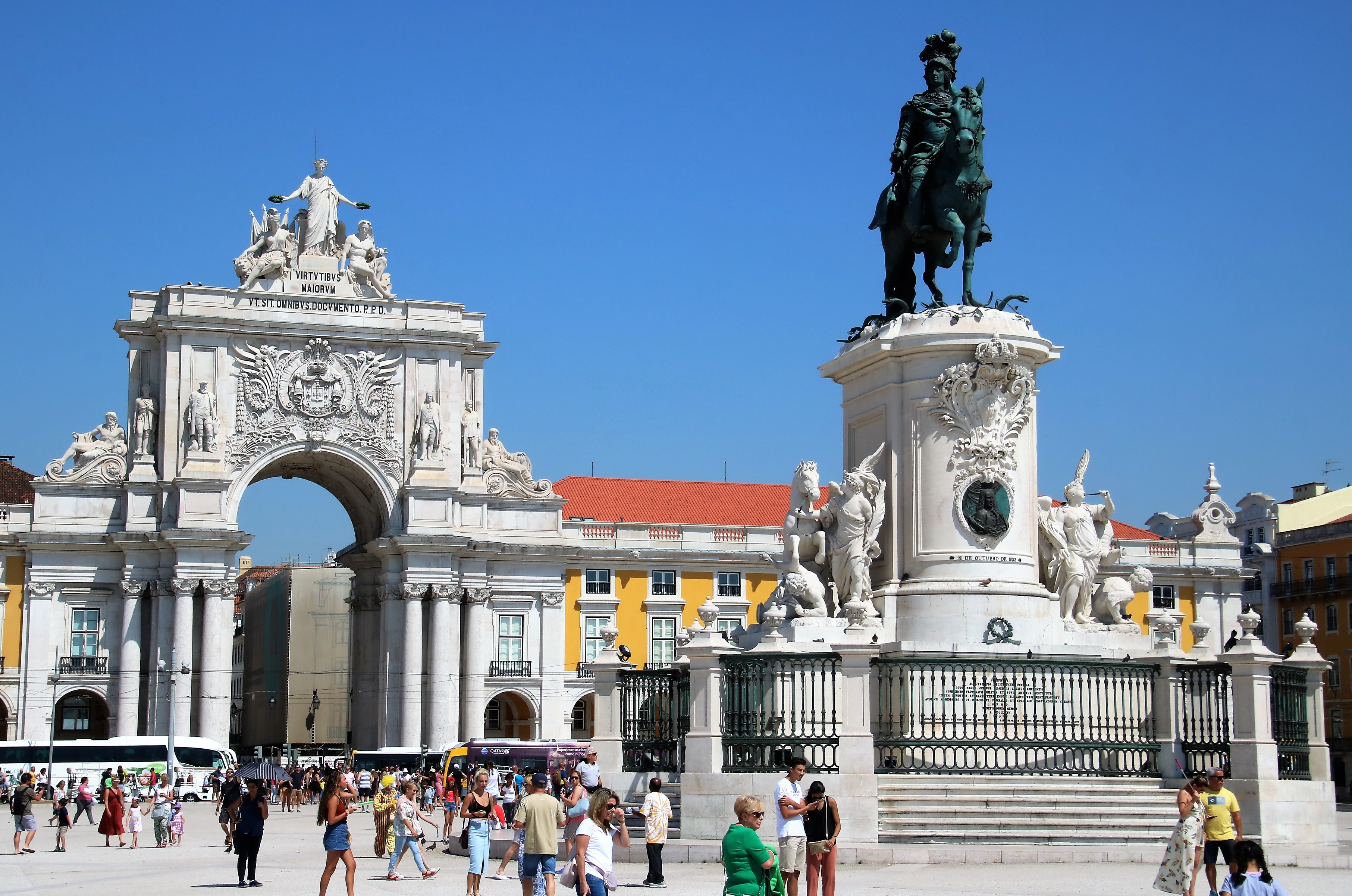 Place in Lisboa